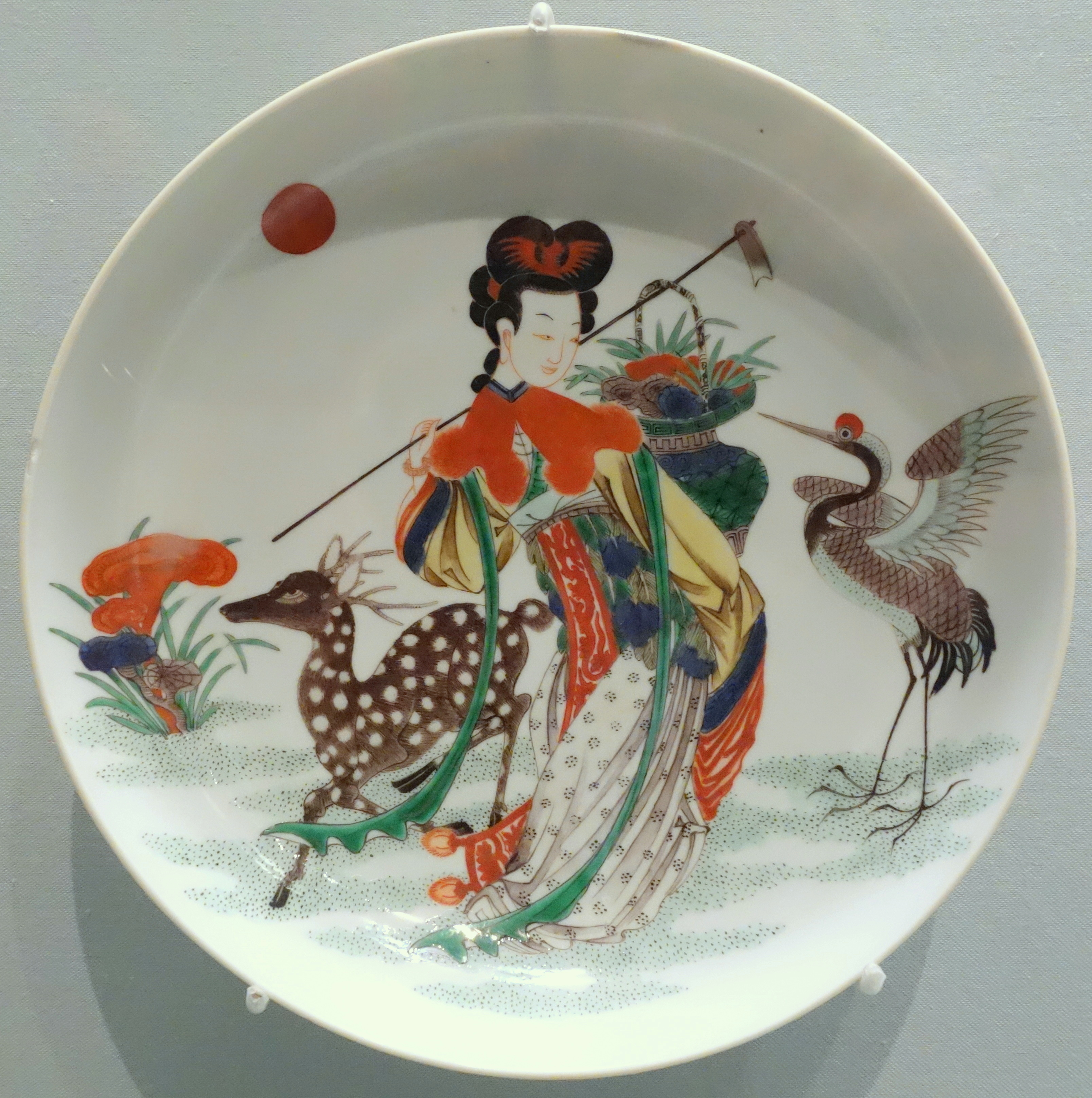 Exhibit in the Asian Art Museum of San Francisco, San Francisco, California, USA. This artwork is in the public domain because the artist died more than 70 years ago.